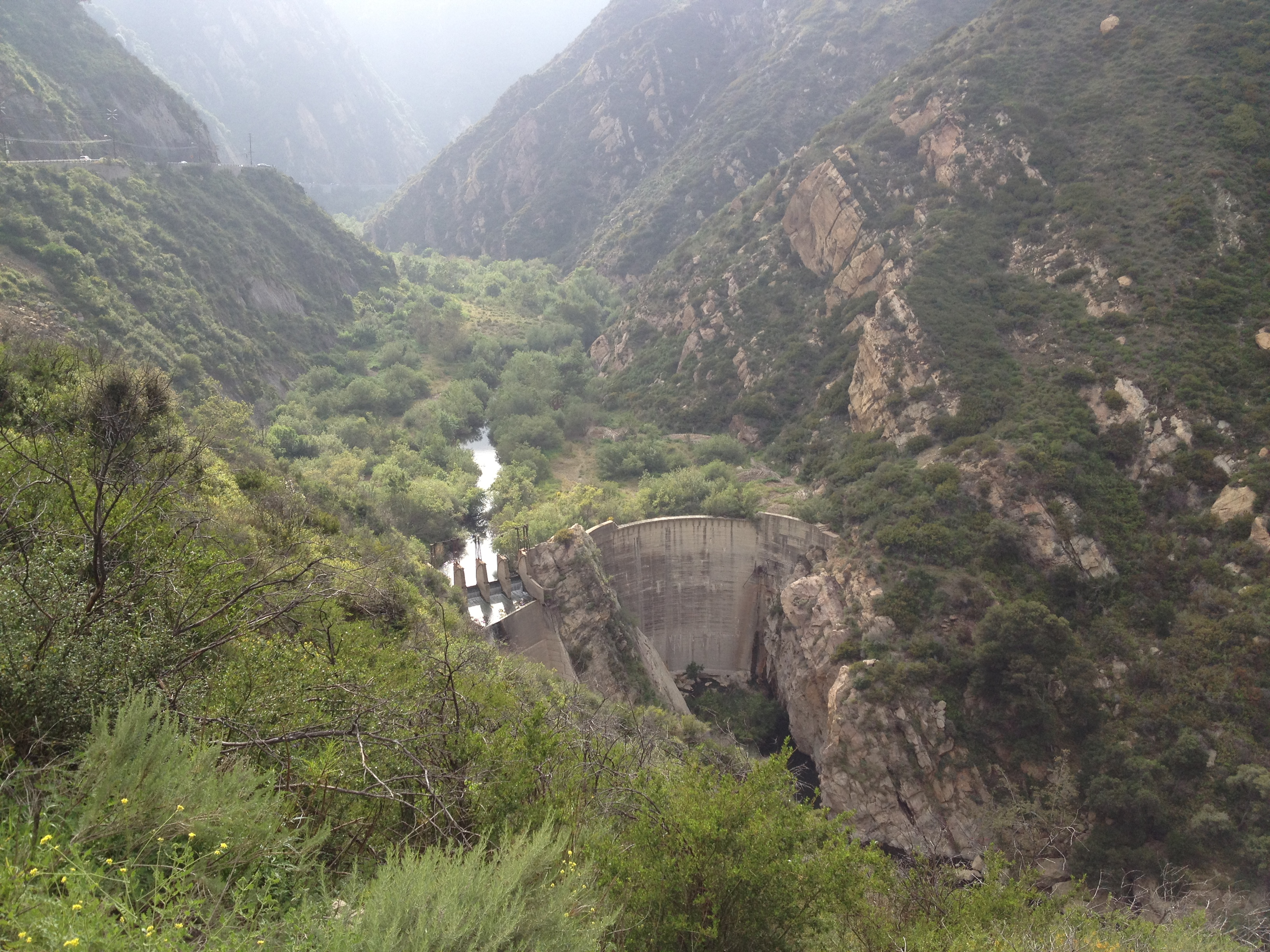 The Rindge Dam in Malibu Canyon — on Malibu Creek in the Santa Monica Mountains, near Malibu in Southern California. The 1926 concrete dam is located within southern Malibu Creek State Park, in the Santa Monica Mountains National Recreation Area system.